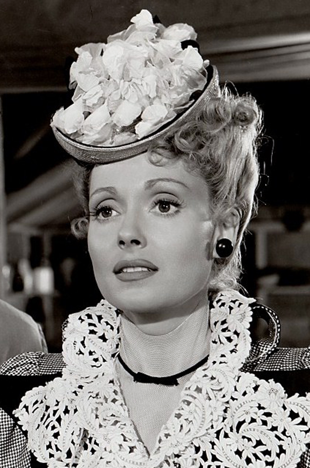 Martha Scott in In Old Oklahoma, promotional still